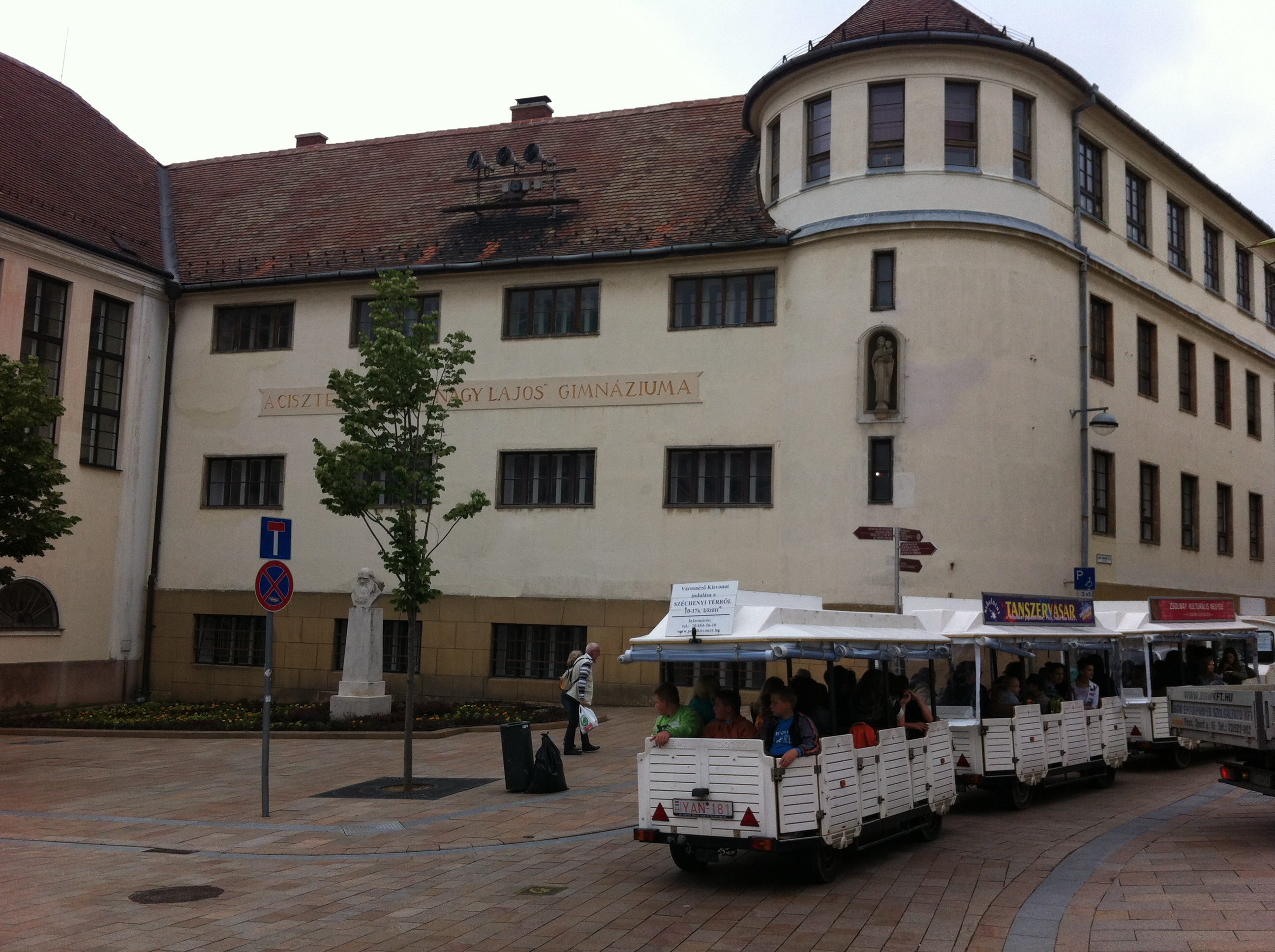 Nagy Lajos High School, Pécs, Hungary